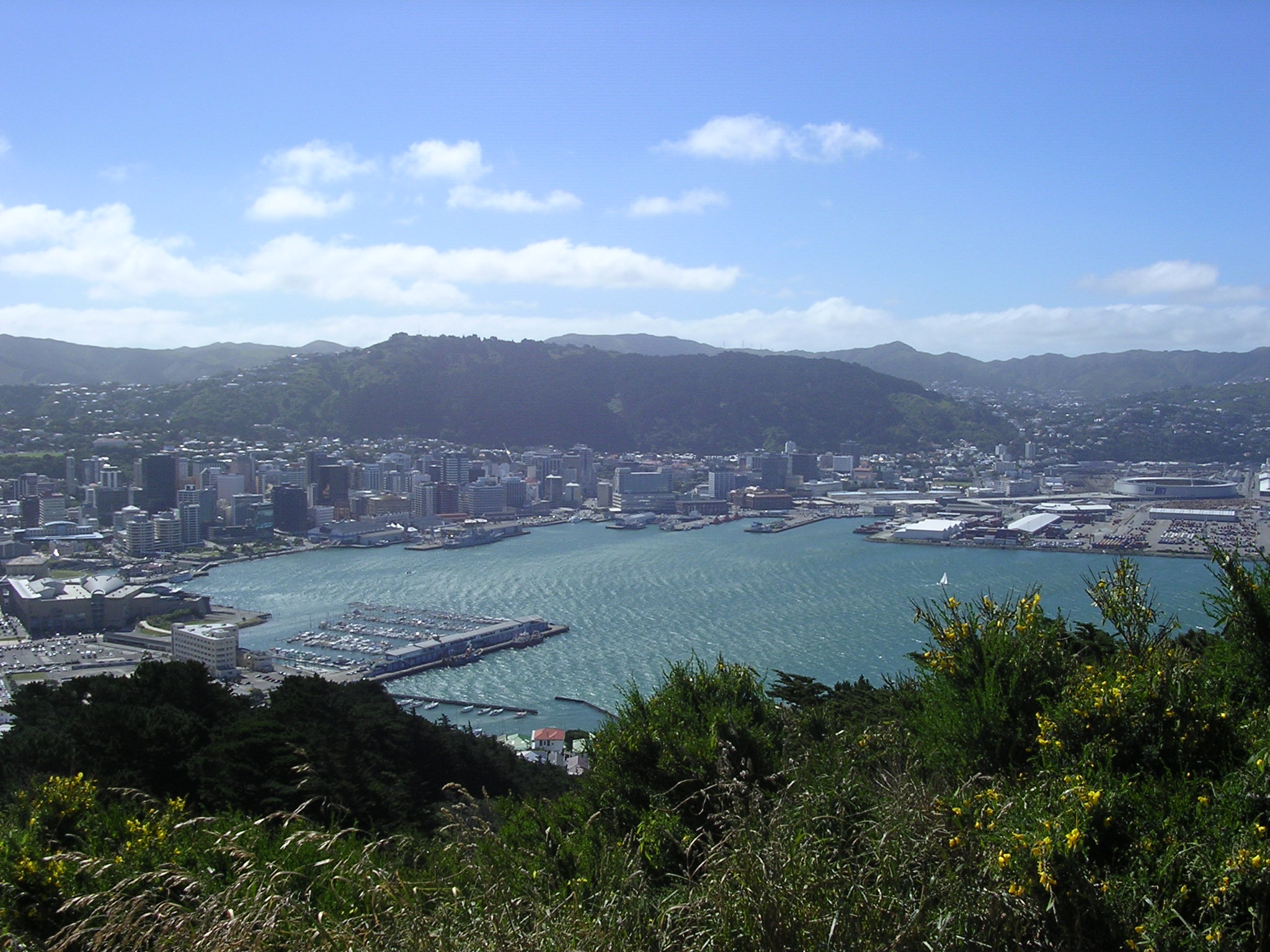 A photo of Wellington taken from the lookout point at Mount Victoria, Wellington, New Zealand.